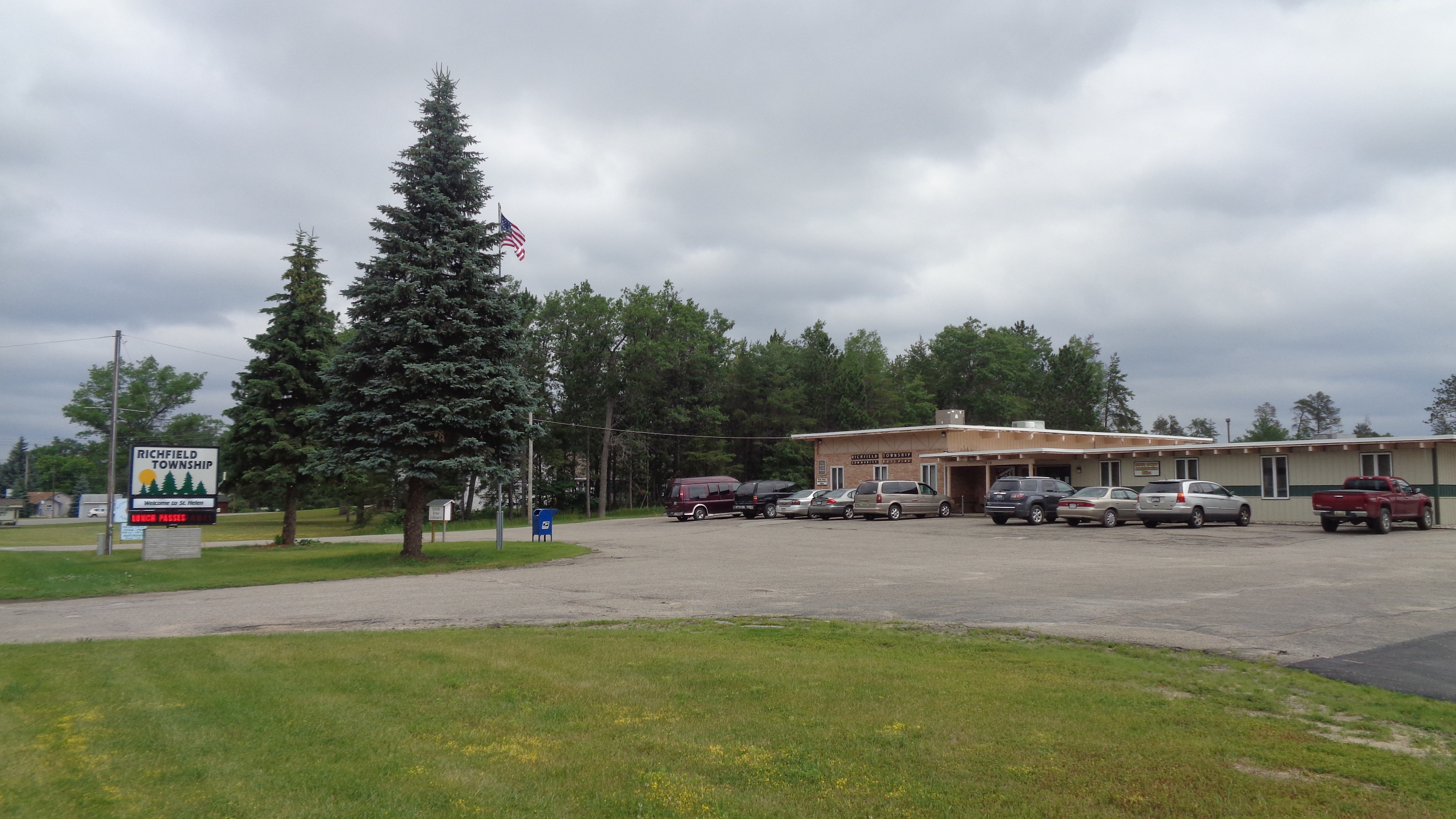 Richfield Township community building; Roscommon, MI